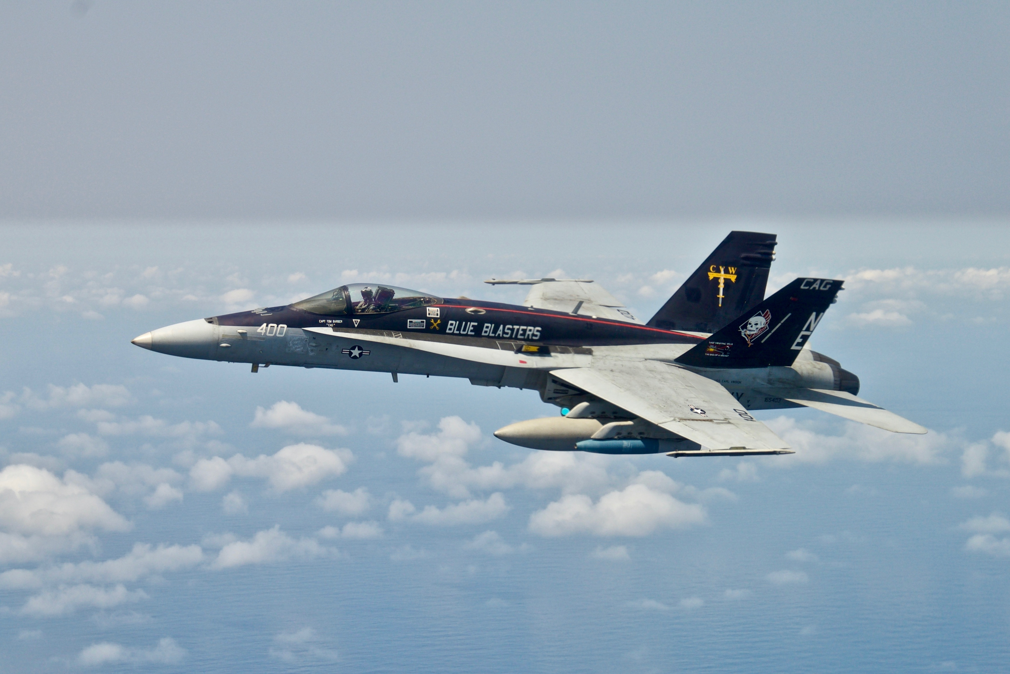 A U.S. Navy McDonnell Douglas F/A-18C Hornet (BuNo 165403) assigned to Strike Fighter Squadron 34 (VFA-34) "Blue Blasters" flies near the aircraft carrier USS Carl Vinson (CVN-70) over the Pacific Ocean on 20 March 2018. VFA-34 was assigned to Carrier Air Wing 2 (CVW-2) aboard the Carl Vinson for a deployment to the Western Pacific since 5 January 2018. Note that his aircraft was the personal aircraft of the "Commander Air Group" (CAG). The small insription on the tail refers to the fact that this deployment of VFA-34 was the last deployment of a U.S. Navy squadron equipped with the F/A-18A/C ("legacy") Hornet.